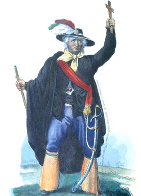 Miguel Hidalgo from the book Costumes civils, militaires et réligieux du Mexique (Belgium, 1828)